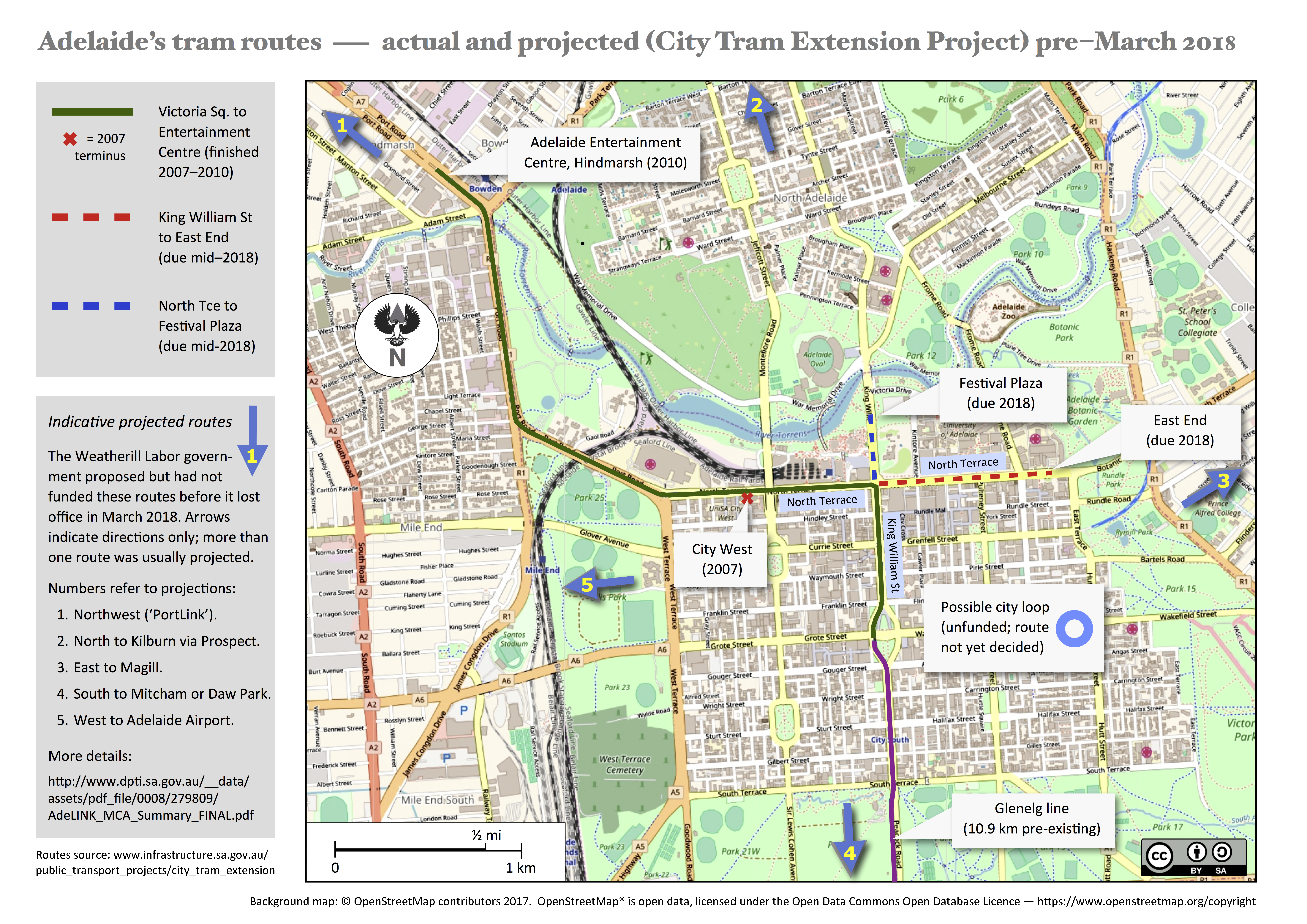 Own work laid over OpenStreetMap map of Adelaide, South Australia, © OpenStreetMap contributors 2017. OpenStreetMap® is open data, licensed under the Open Data Commons Open Database Licence —